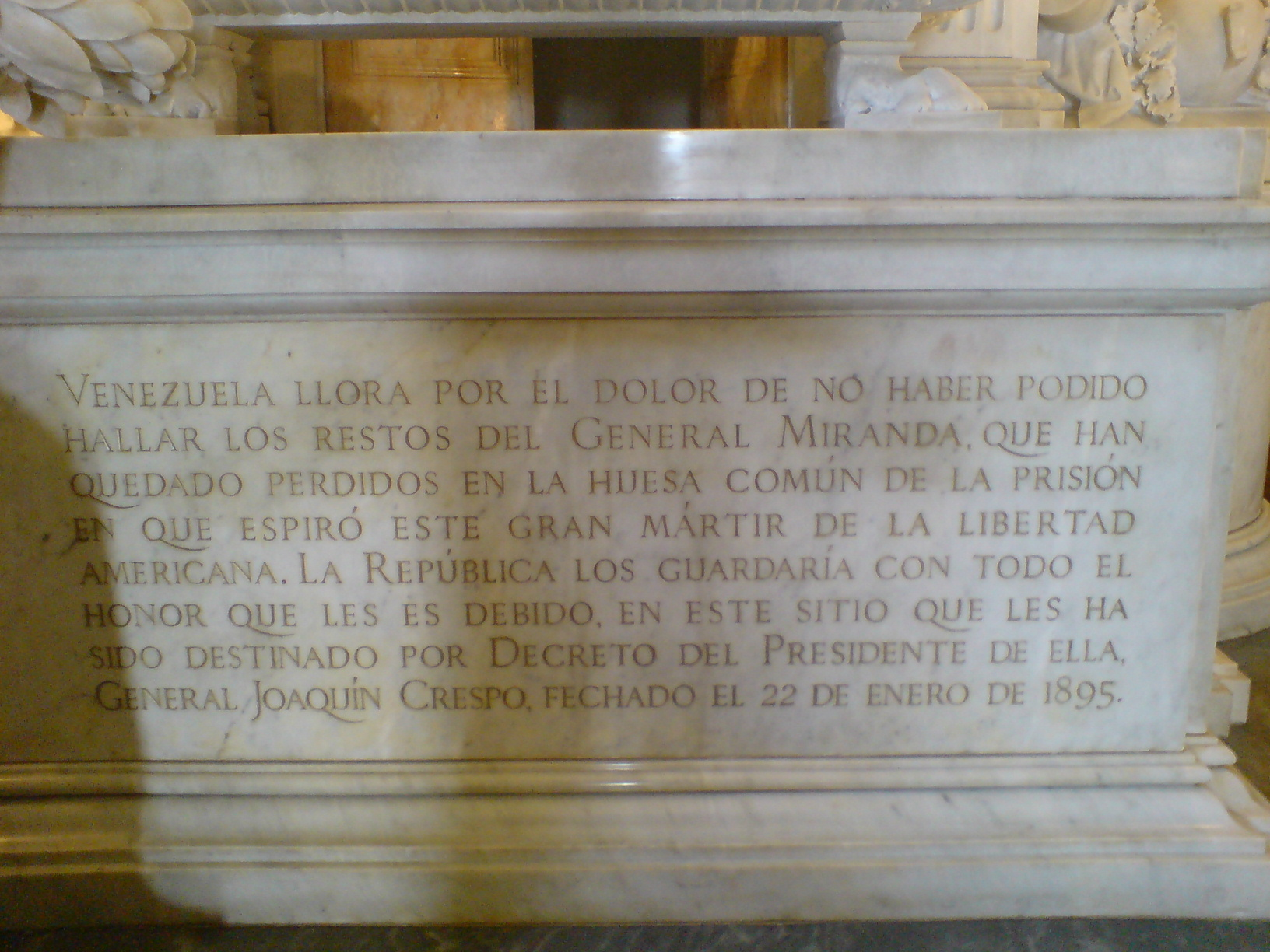 Epitaph at the monument in honor to Francisco de Miranda, located at the National Pantheon of Venezuela.